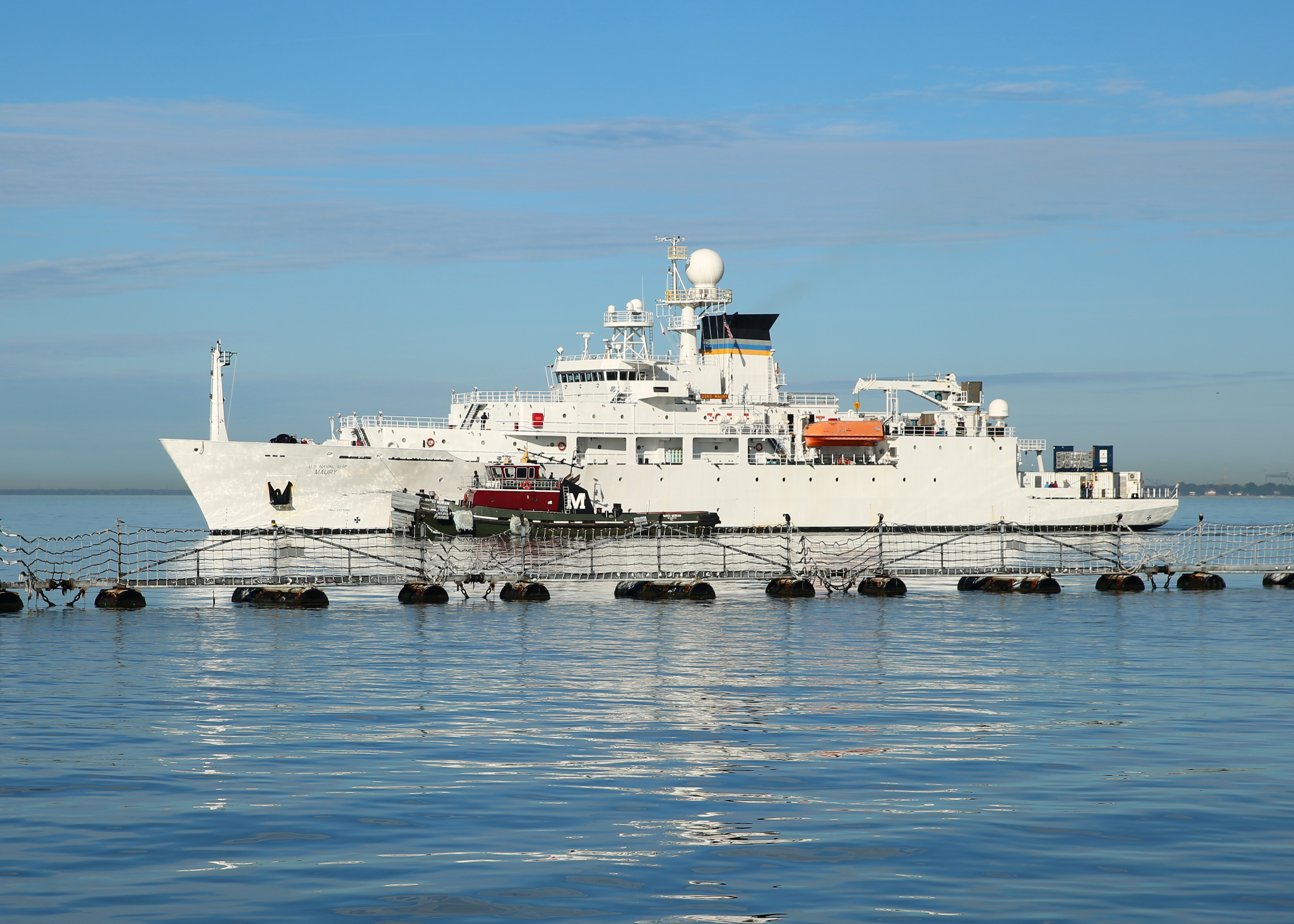 The U.S. Military Sealift Command's oceanographic survey ship USNS Maury (T-AGS-66) pulls into Naval Station Norfolk, Virginia (USA), on 2 November 2017. Maury arrived at Norfolk after completing survey operations off the East Coast.